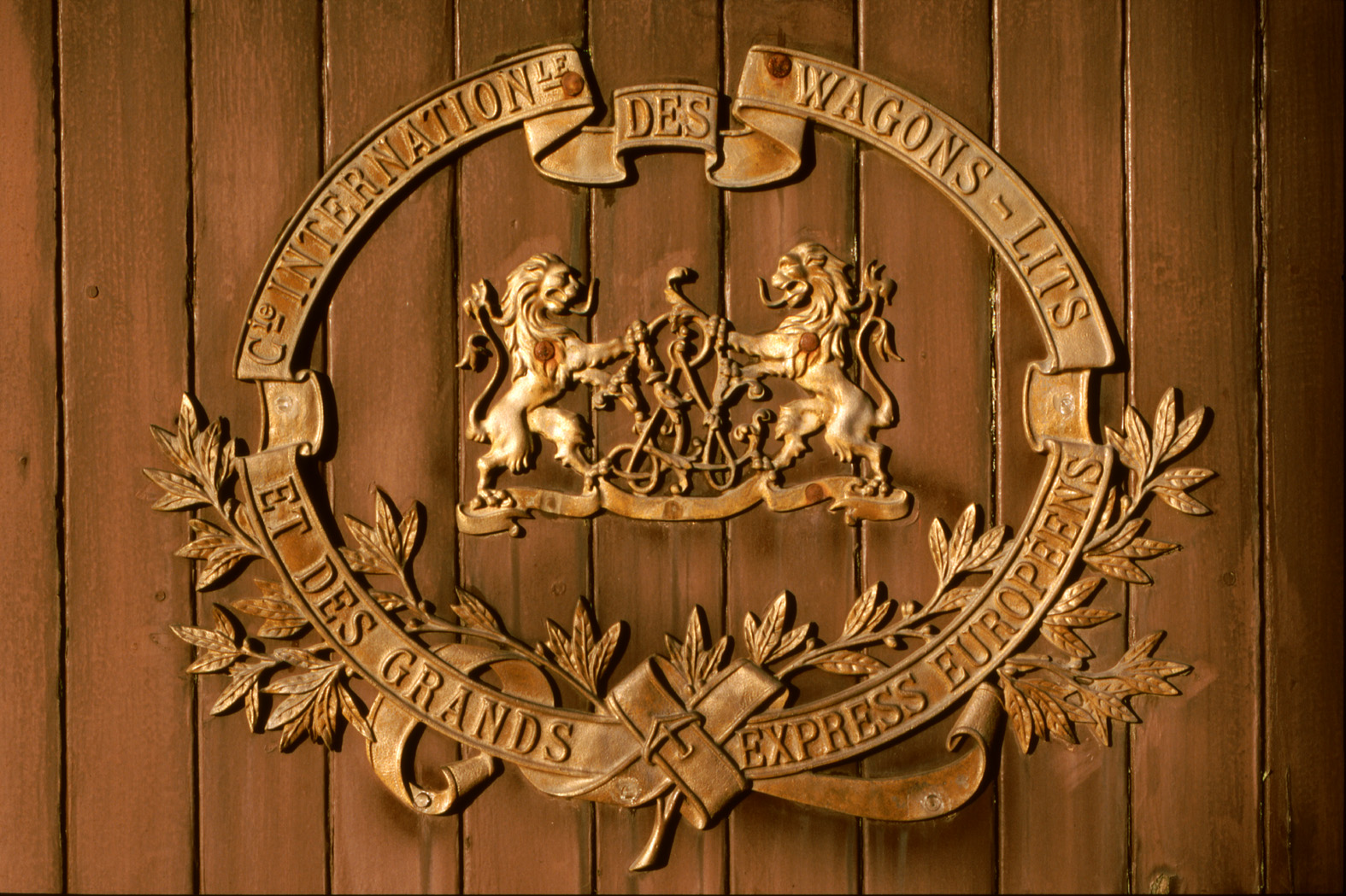 CIWL-Logo on the teak dining car WR 402 / Orient-Express.